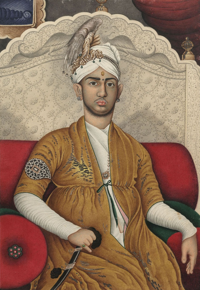 Half-length portraits of Rama Varma (1813-1846), Maharaja of the Kingdom of Travancore